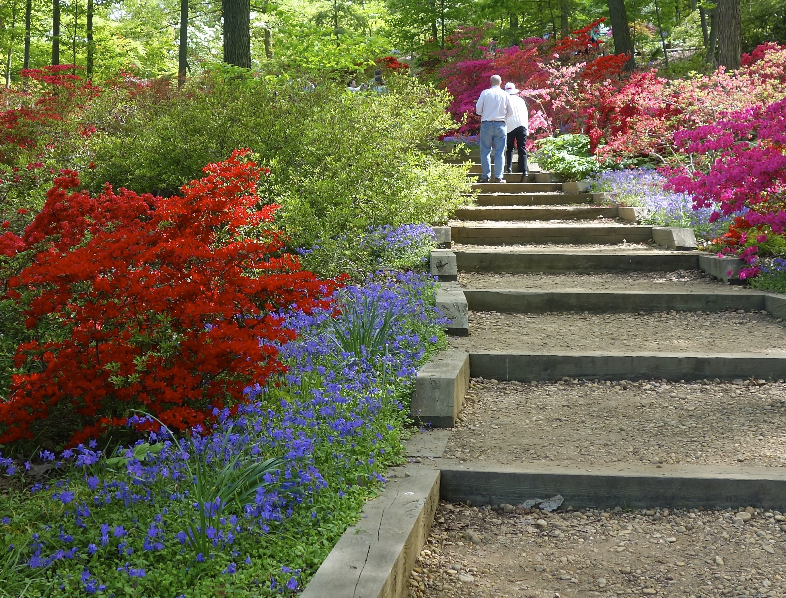 Azalea garden at the U.S. National Arboretum, 24th and R Sts., NE. NE